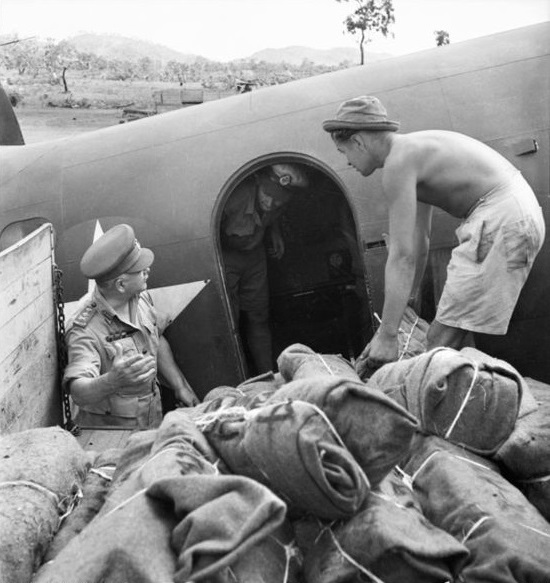 1942-12-14. NEW GUINEA. TROOPS LOAD PLANE WITH AMMUNITION WRAPPED IN BLANKETS, WHICH WILL BE DROPPED TO THE TROOPS IN THE BUNA-GONA AREA. GENERAL BLAMEY DISPLAYS KEEN INTEREST IN THE LOADING OF THE PLANE. (NEGATIVE BY G. SILK).